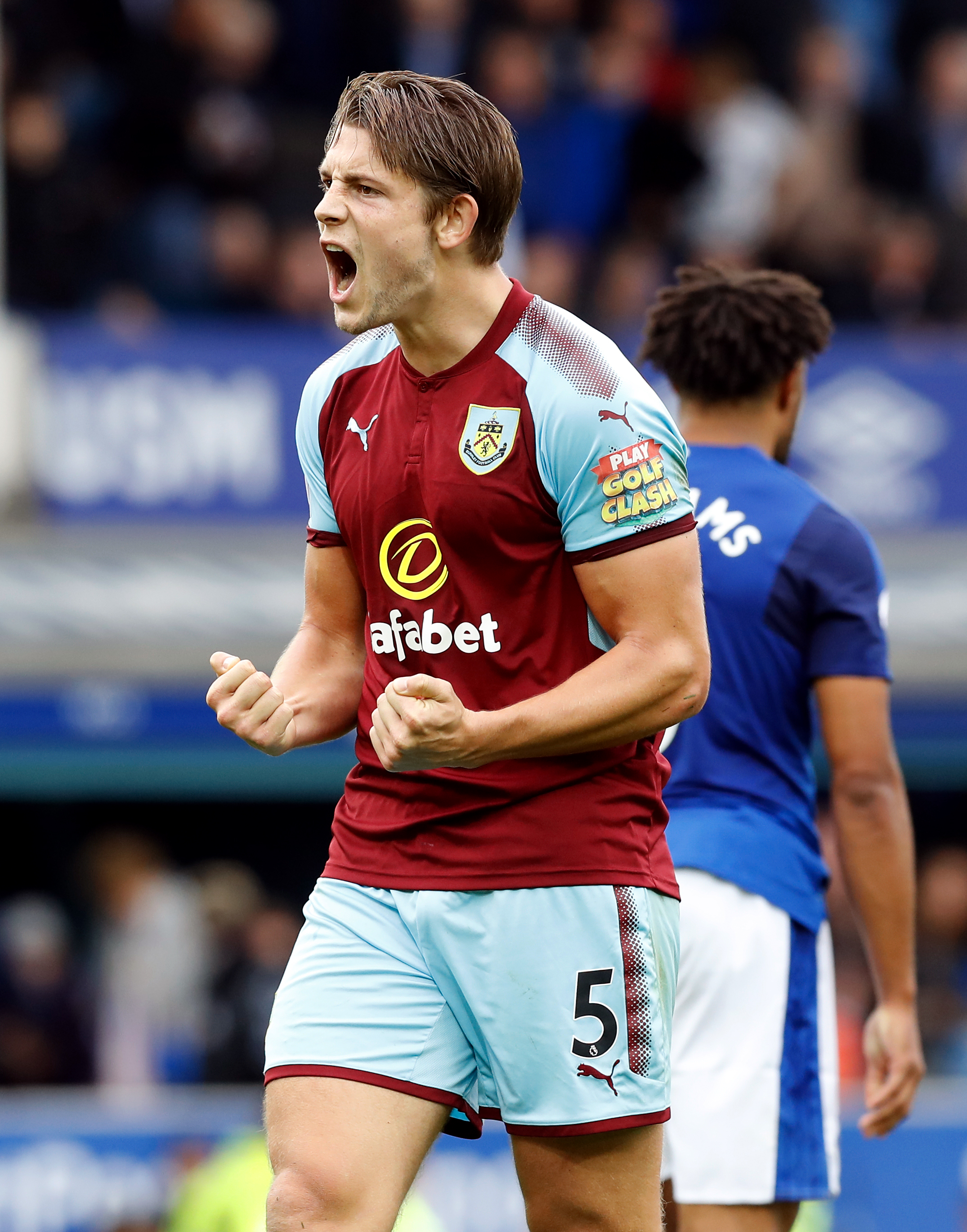 Photograph of James Tarkowski at the end of a Premier League match at Goodison Park, Liverpool.